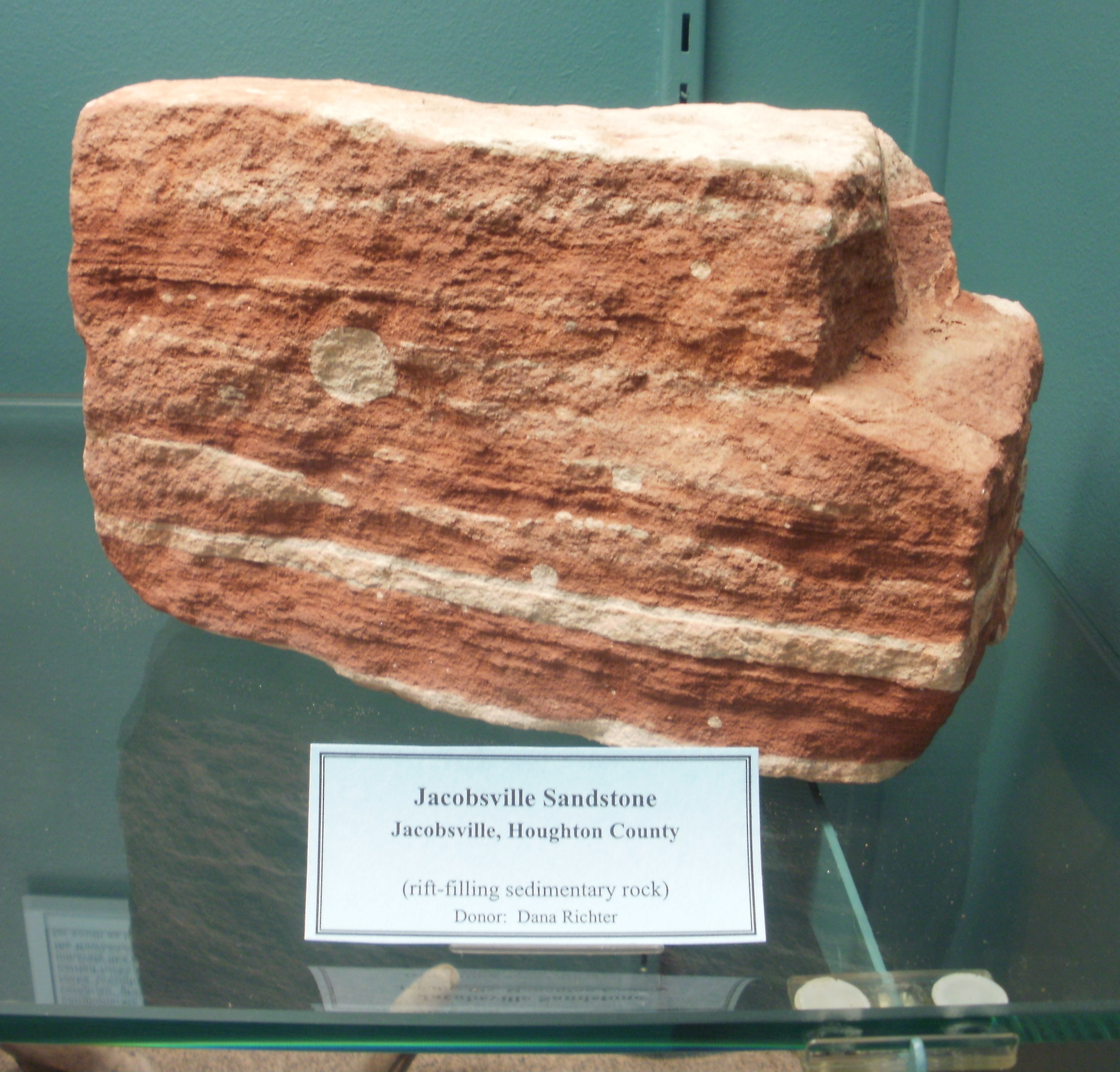 Jacobsville Sandstone from Jacobsville, Michigan. Held in the A. E. Seaman Mineral Museum. Approximately 12 cm across.